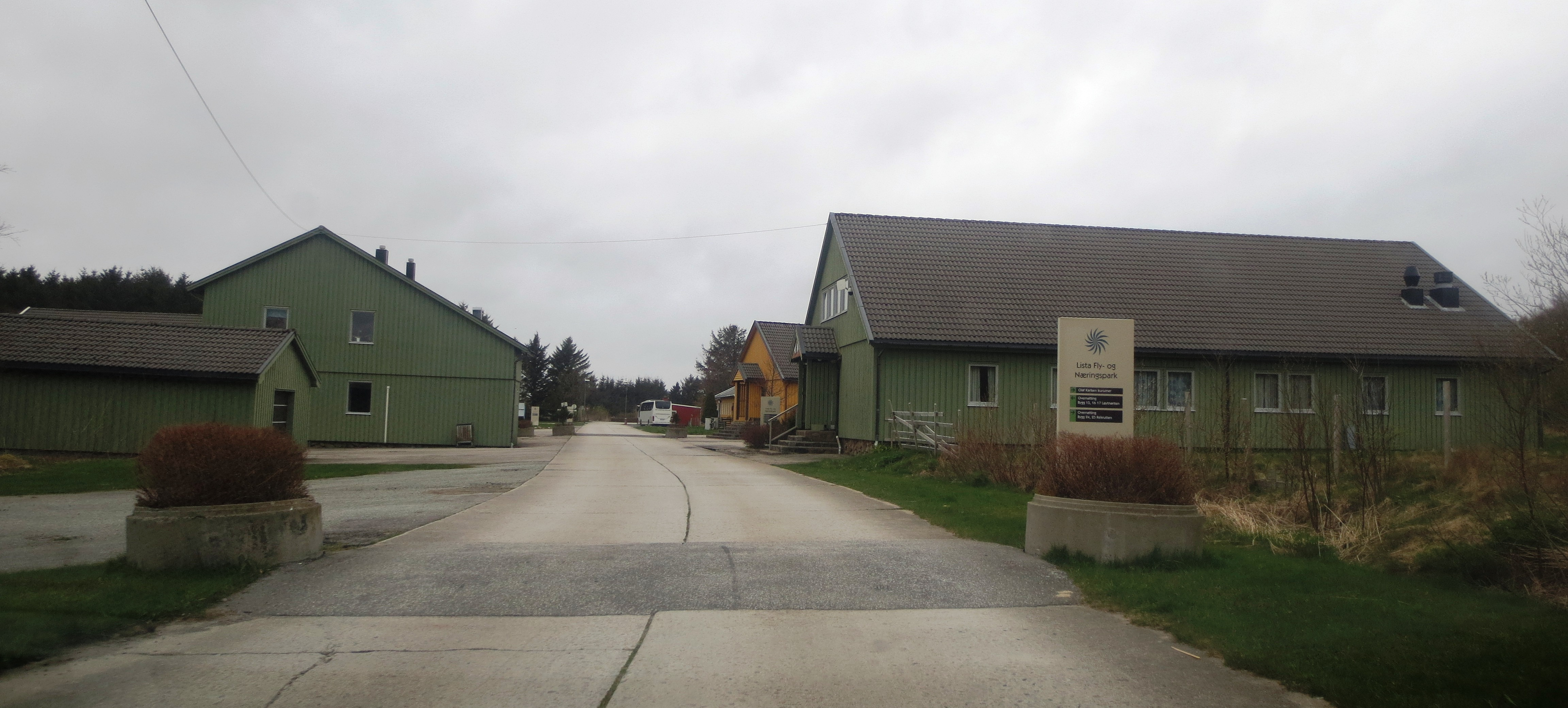 The former Lista Air Force Station (Lista flystasjon) in Farsund municipality, Norway